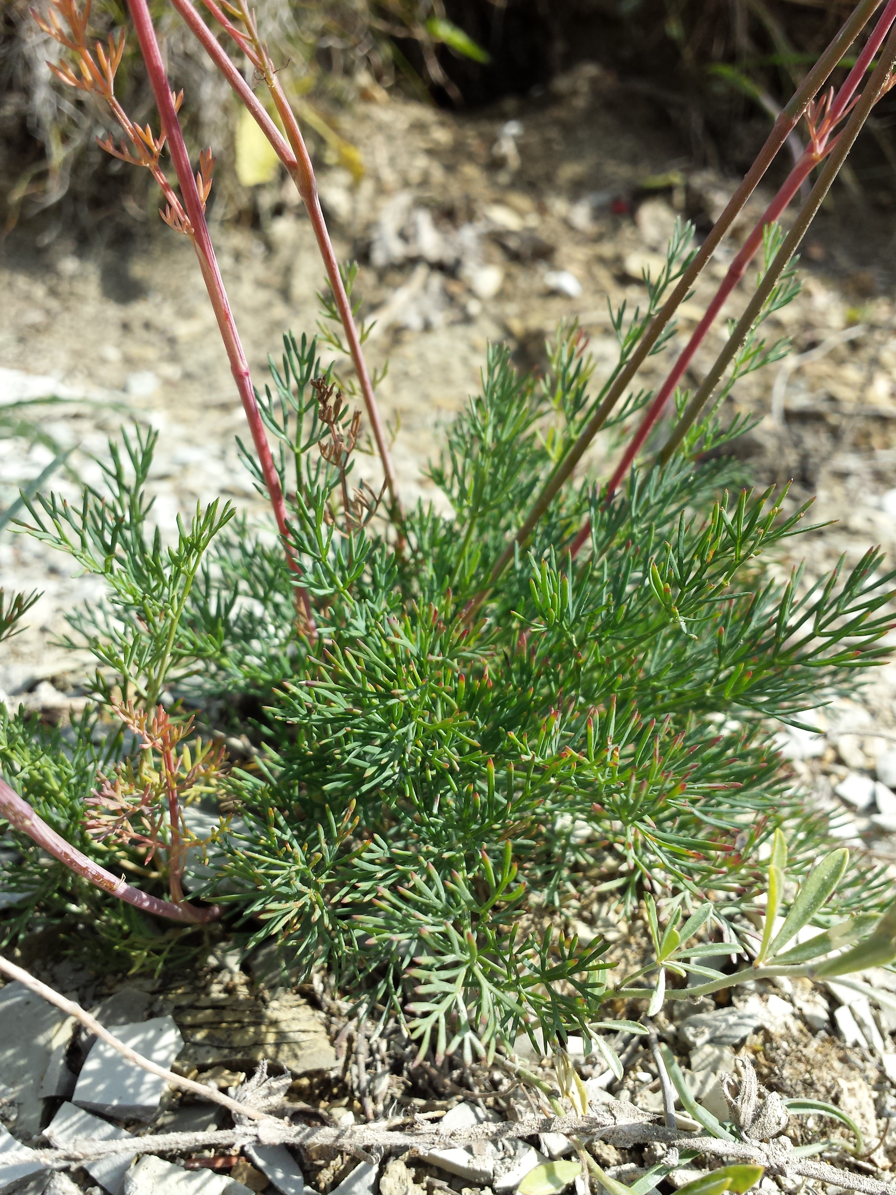 Leaves Taxon: Seseli hippomarathrum (sensu Fischer et al. EfÖLS 2008) Location: Bisamberg near Vienna, district Korneuburg, Lower Austria - ca. 300 m a.s.l. Habitat: rock steppe